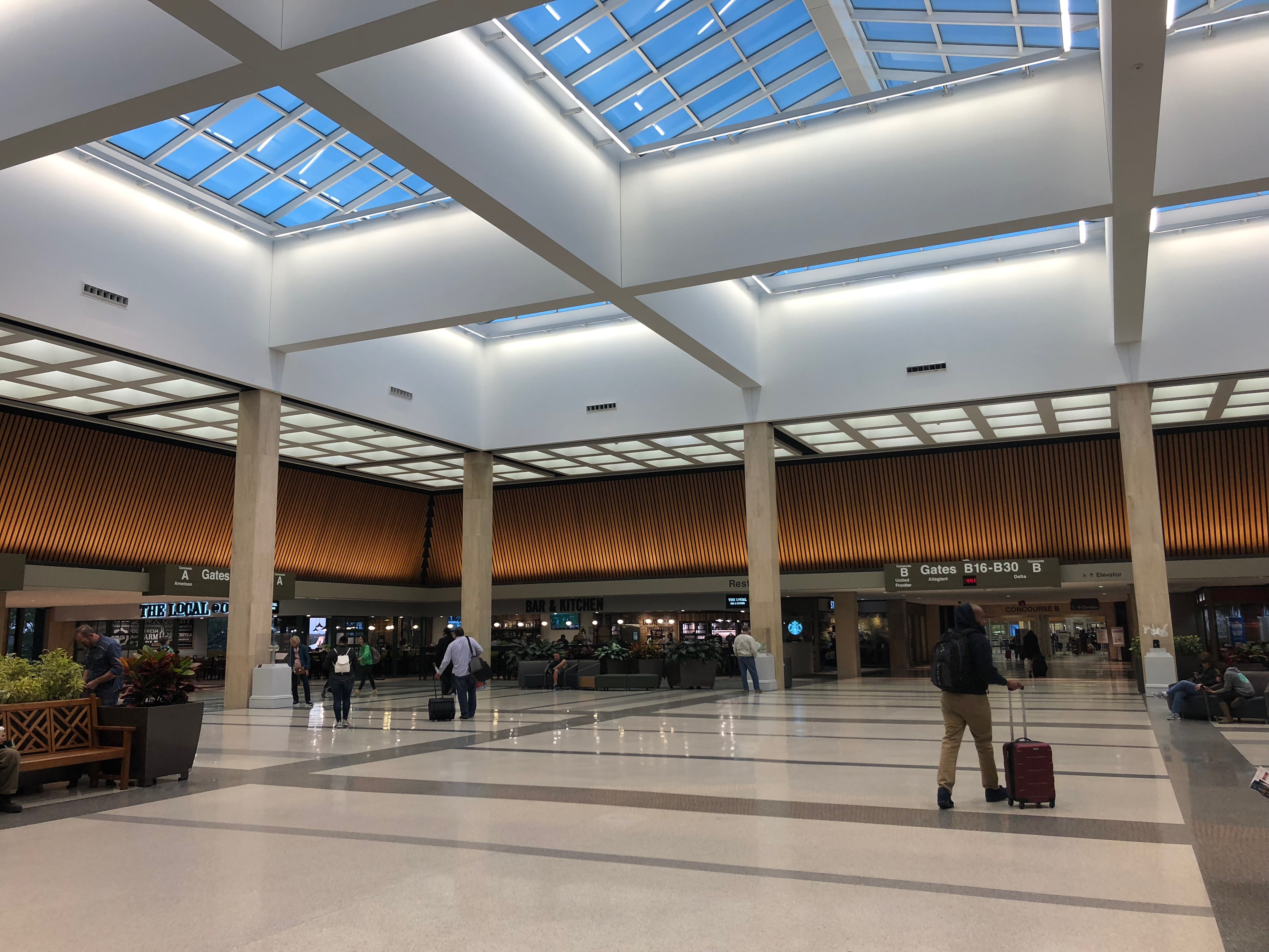 ORF!!